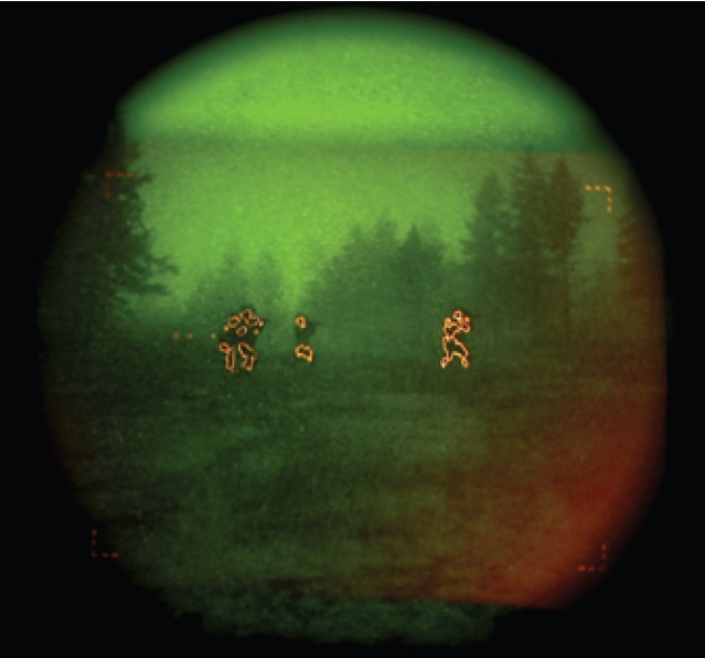 An infrared view reveals the thermal capability of the ENVG, which makes it, unlike earlier night vision devices, useful during the day as well as at night. Thermal recognition probabilities against a standing and moving man-size target are 80 percent at 150 meters.